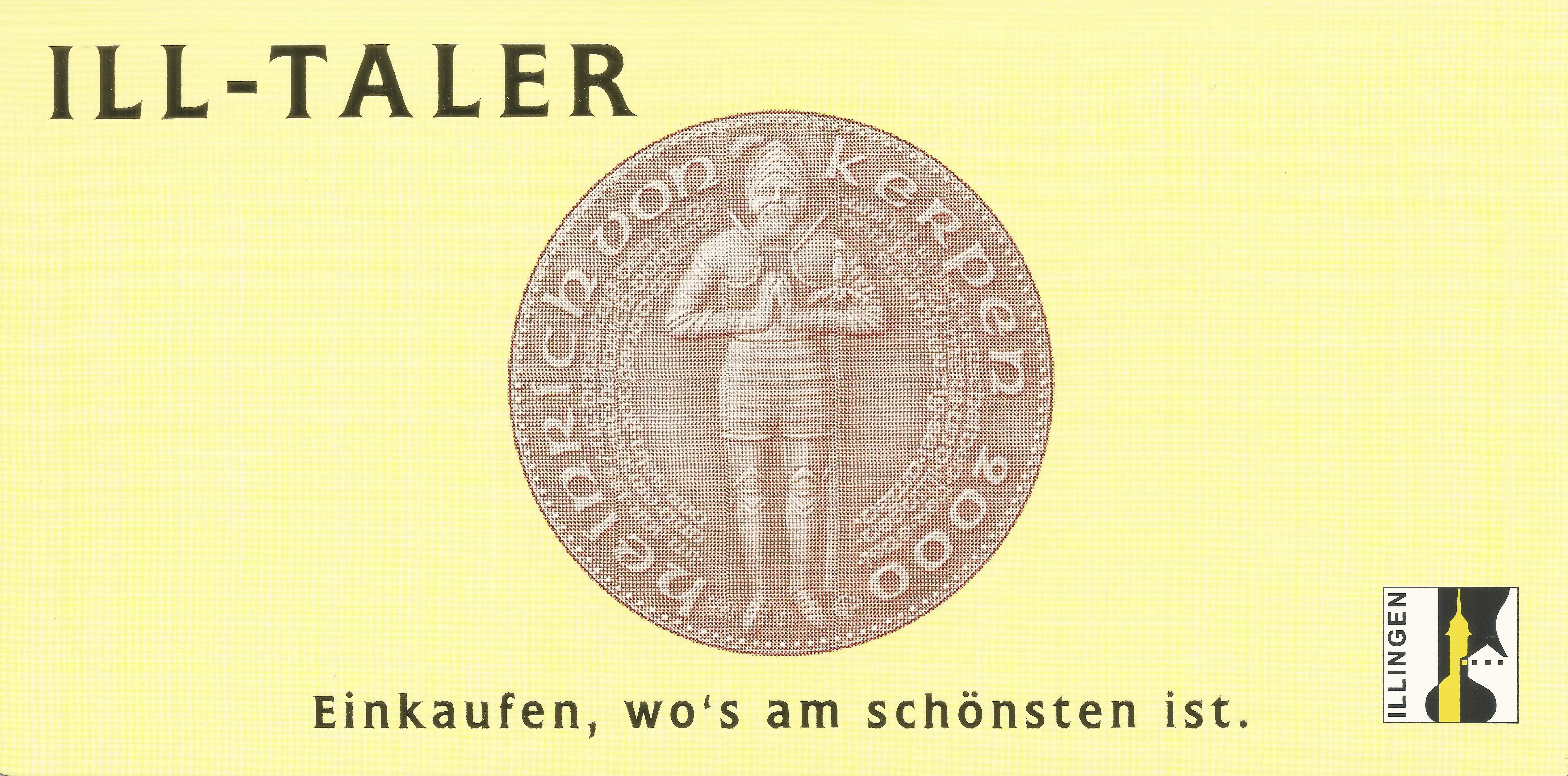 Gift voucher "Illtaler" as regional currency in Illingen, Saarland, Germany.